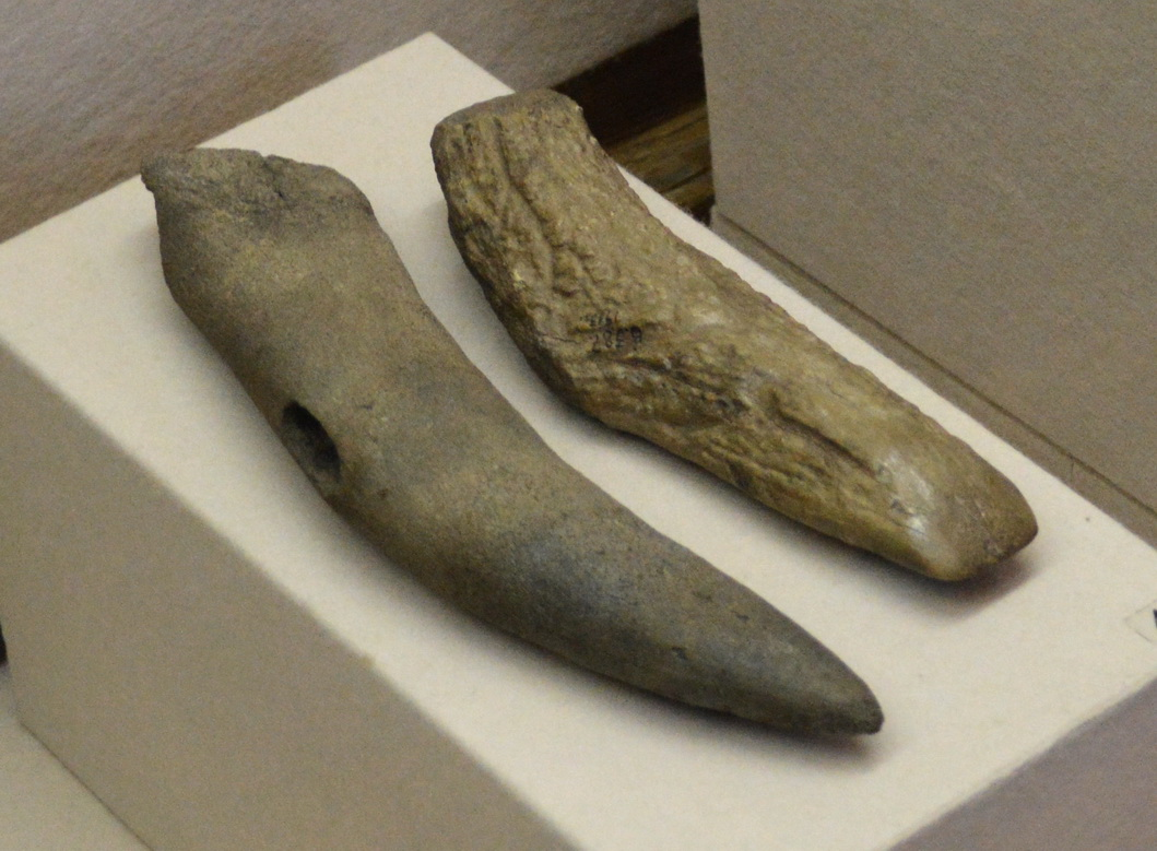 Lower Veretje. Pickaxe and axe.